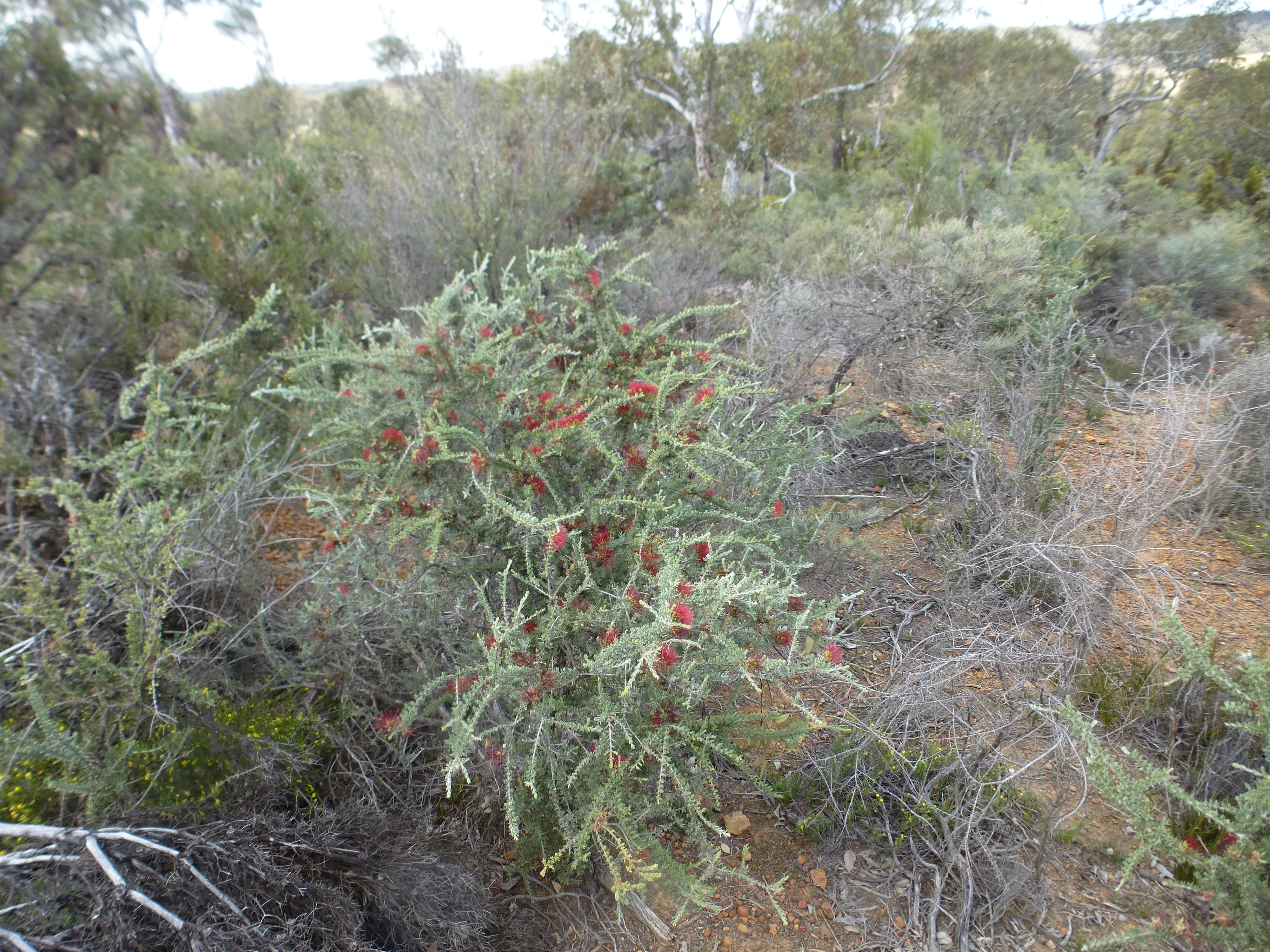 Beaufortia incana growing in the Wingedine Nature Reserve near Kojonup